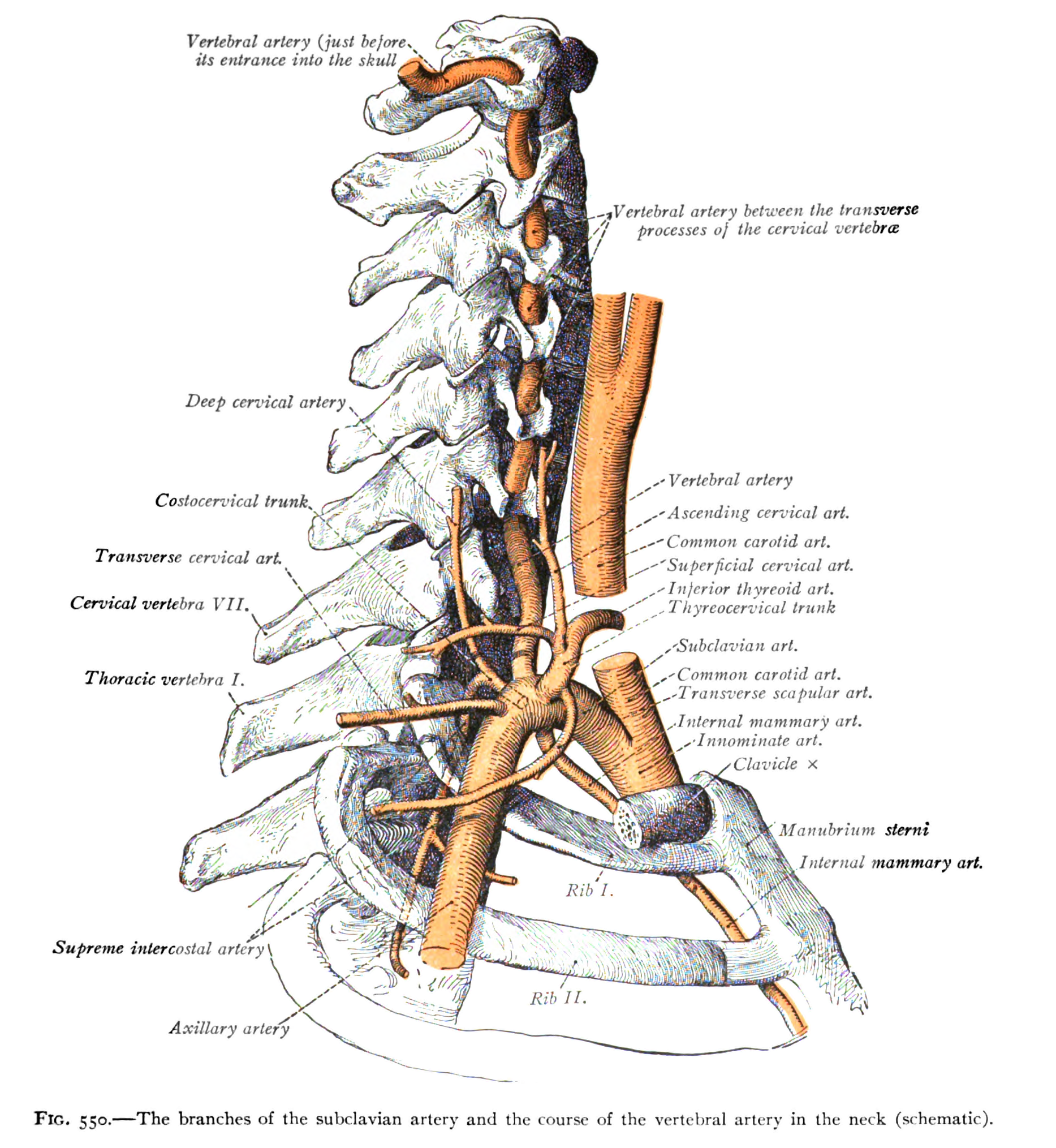 The branches of the subclavian artery and the course of the vertebral artery in the neck (schematic).